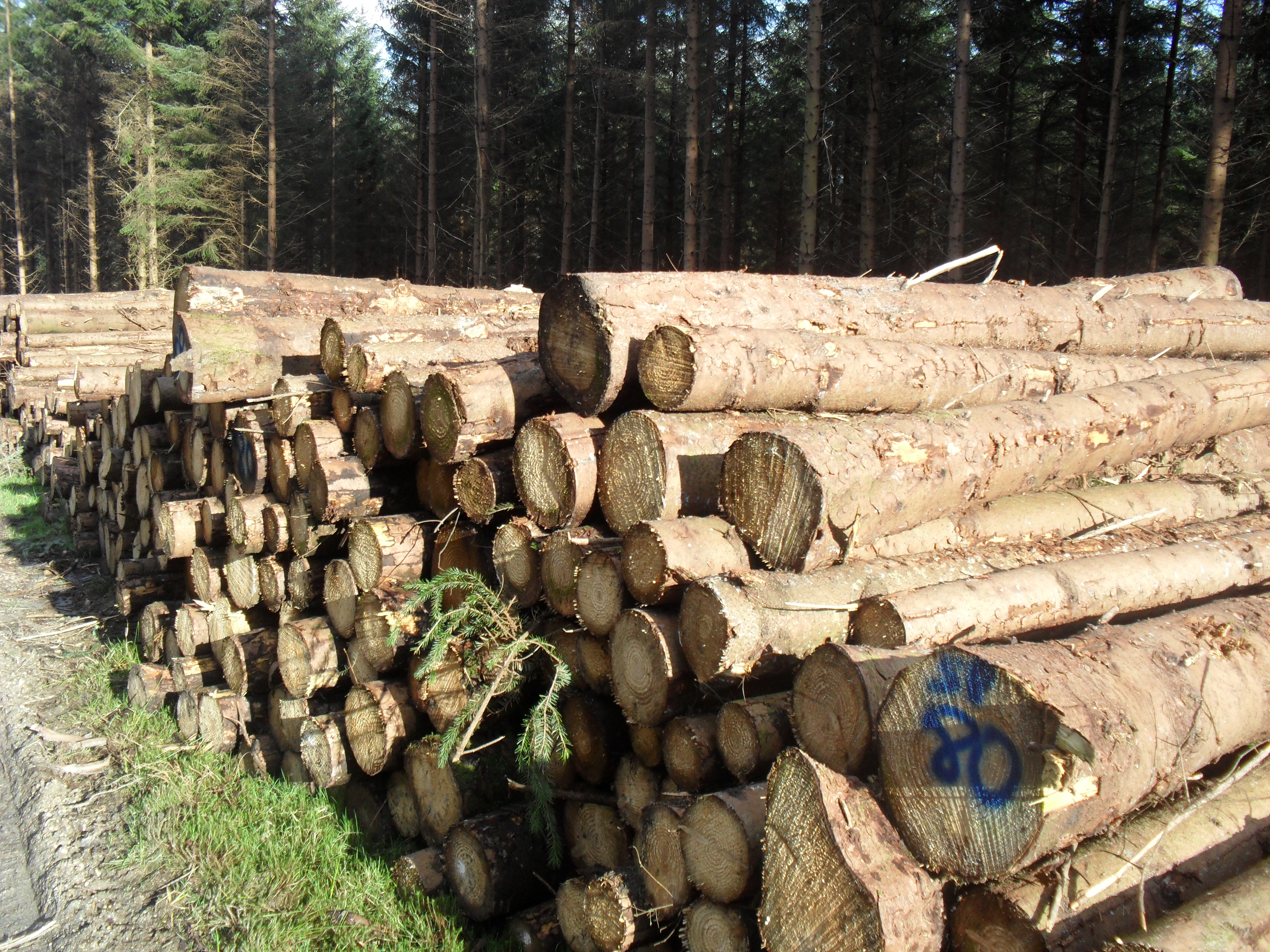 Lumber pile, Wicklow